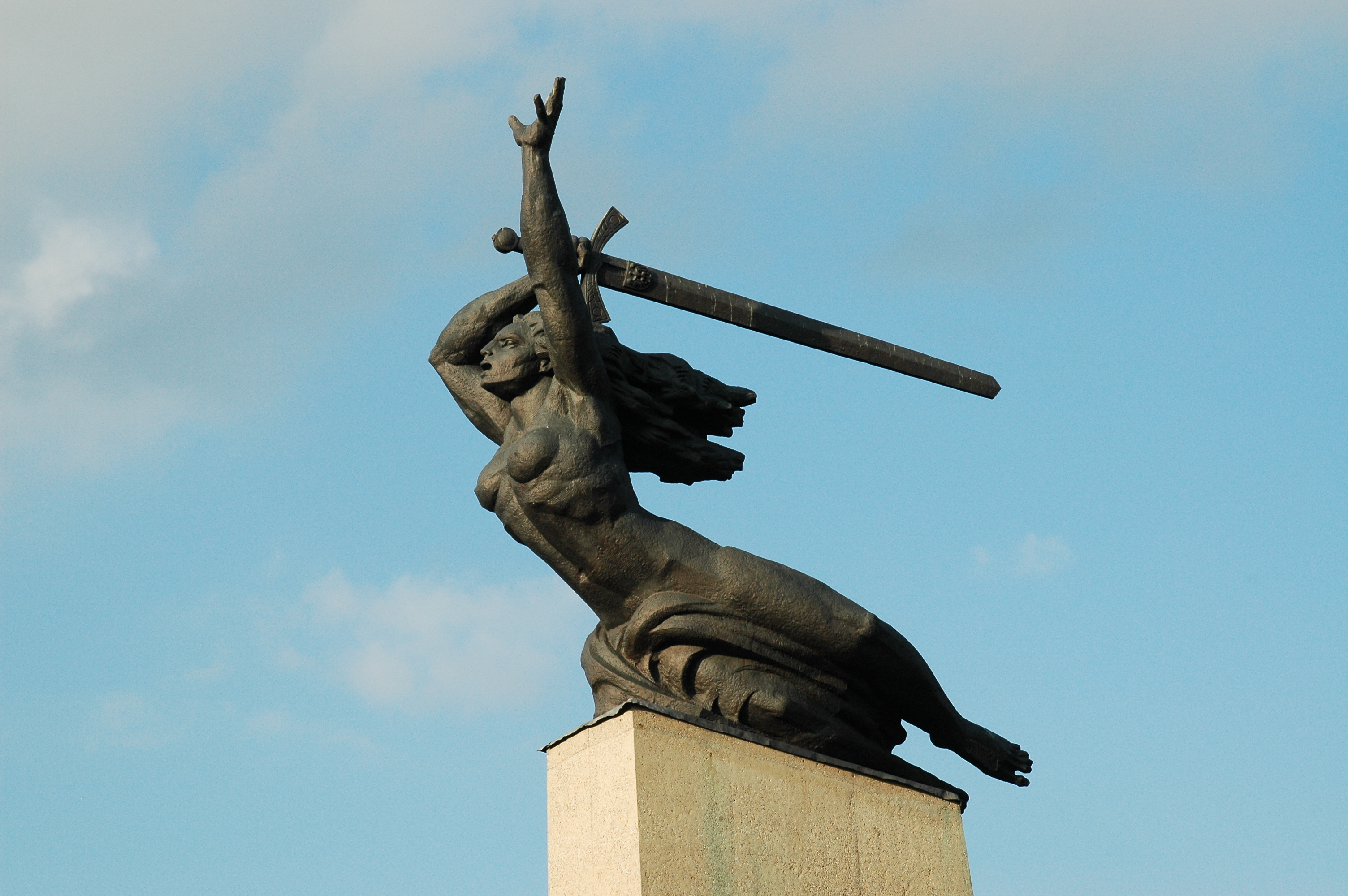 Monument to Warsaw Nike - close-up